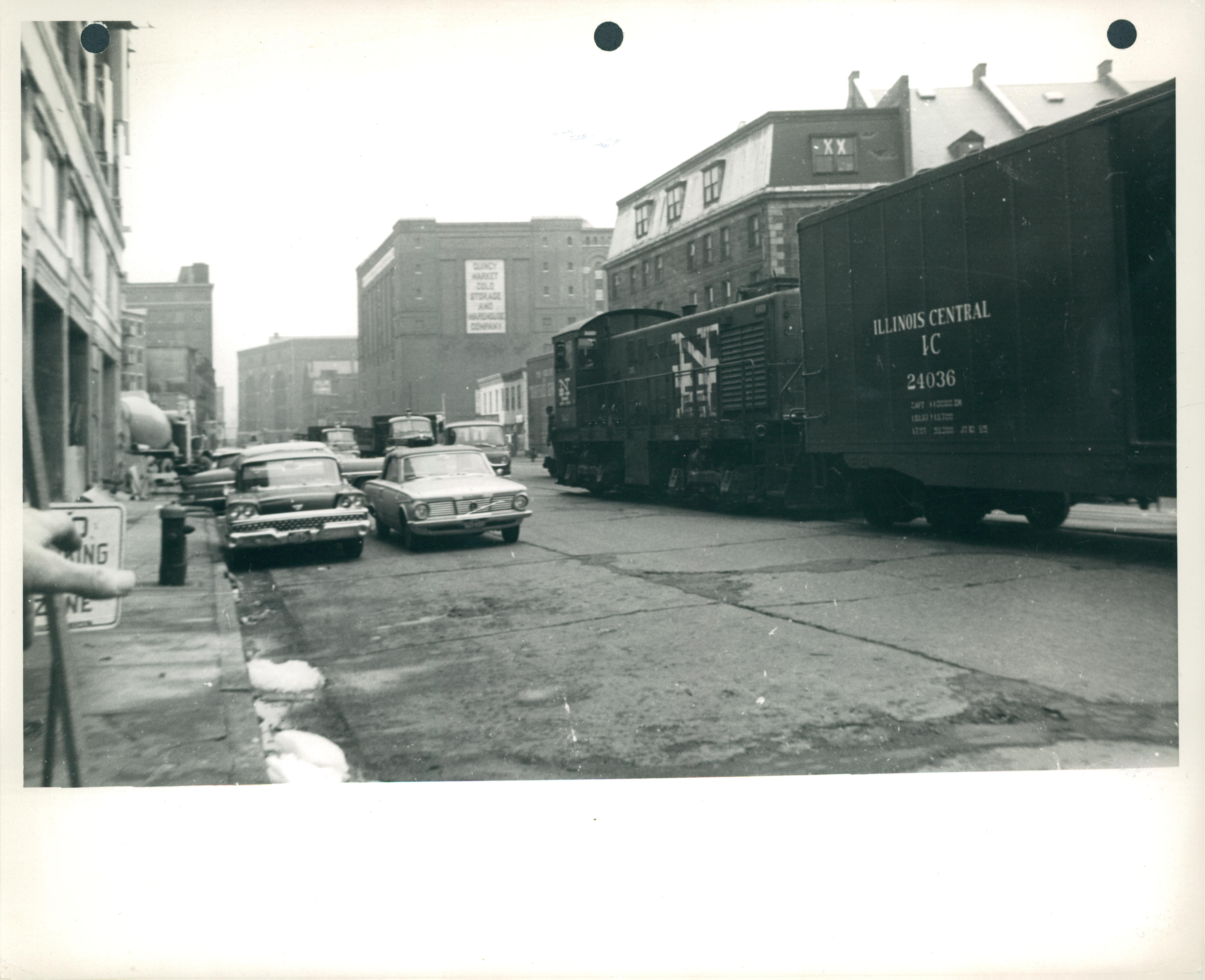 Union Freight Railroad locomotive hauling an Illinois Central boxcar on Atlantic Avenue, looking towards Commercial Street